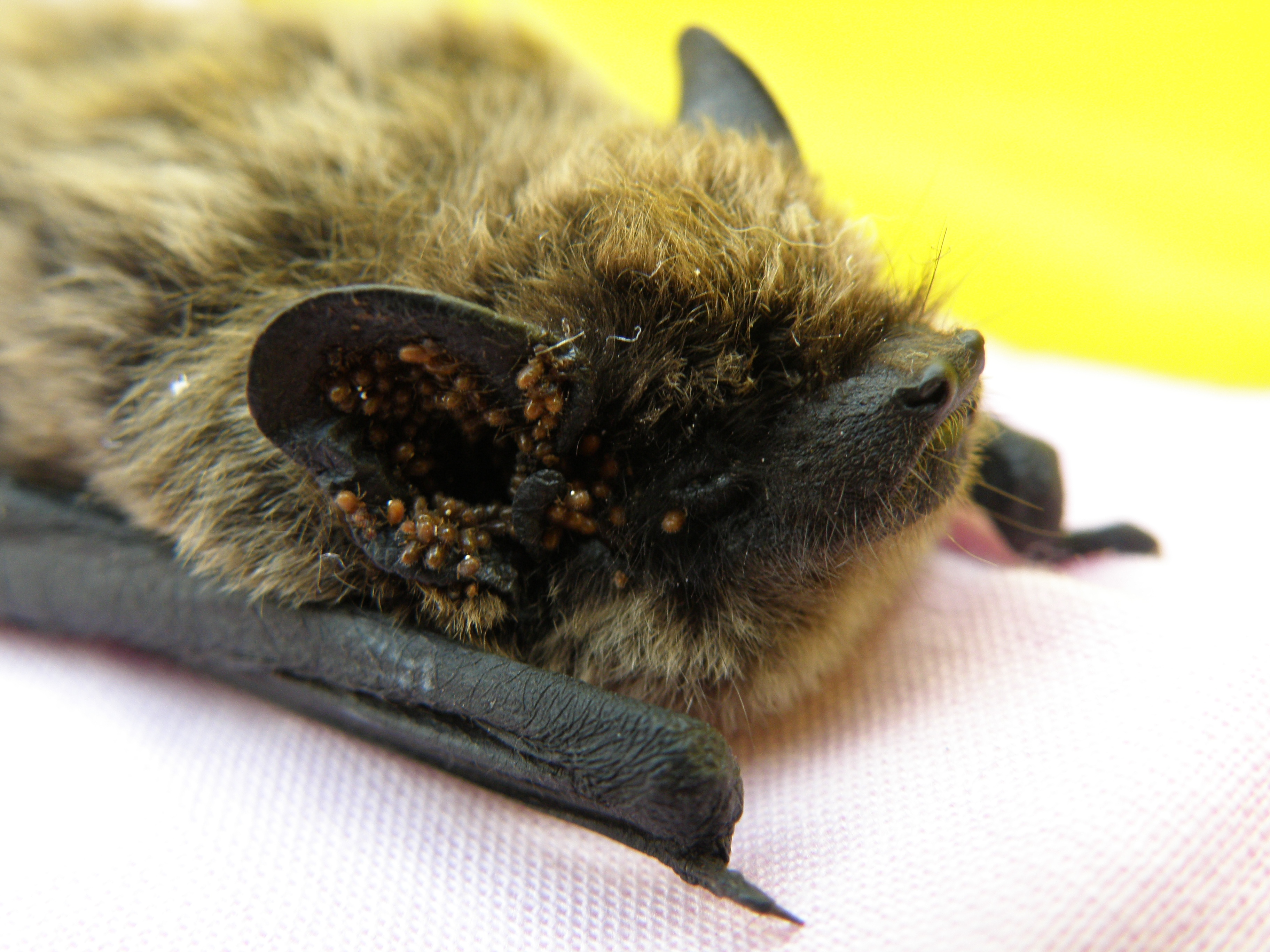 Trombicula (Acarina: Trombiculidae) on Kuhl's pipistrelle (Pipistrellus kuhlii).